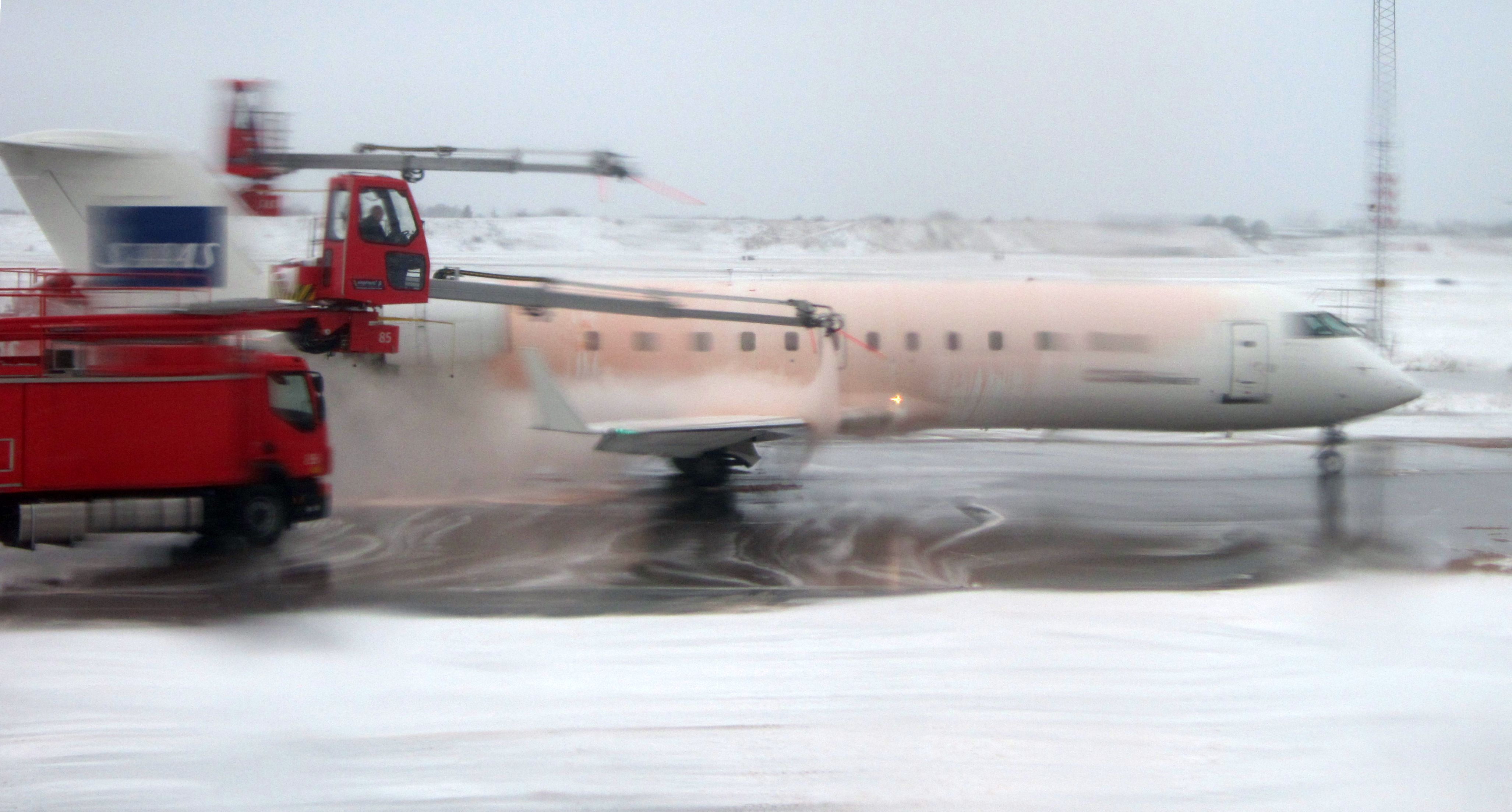 De-icing with an orange-colored de-ice fluid (Type I De-Ice) at Copenhagen Airport